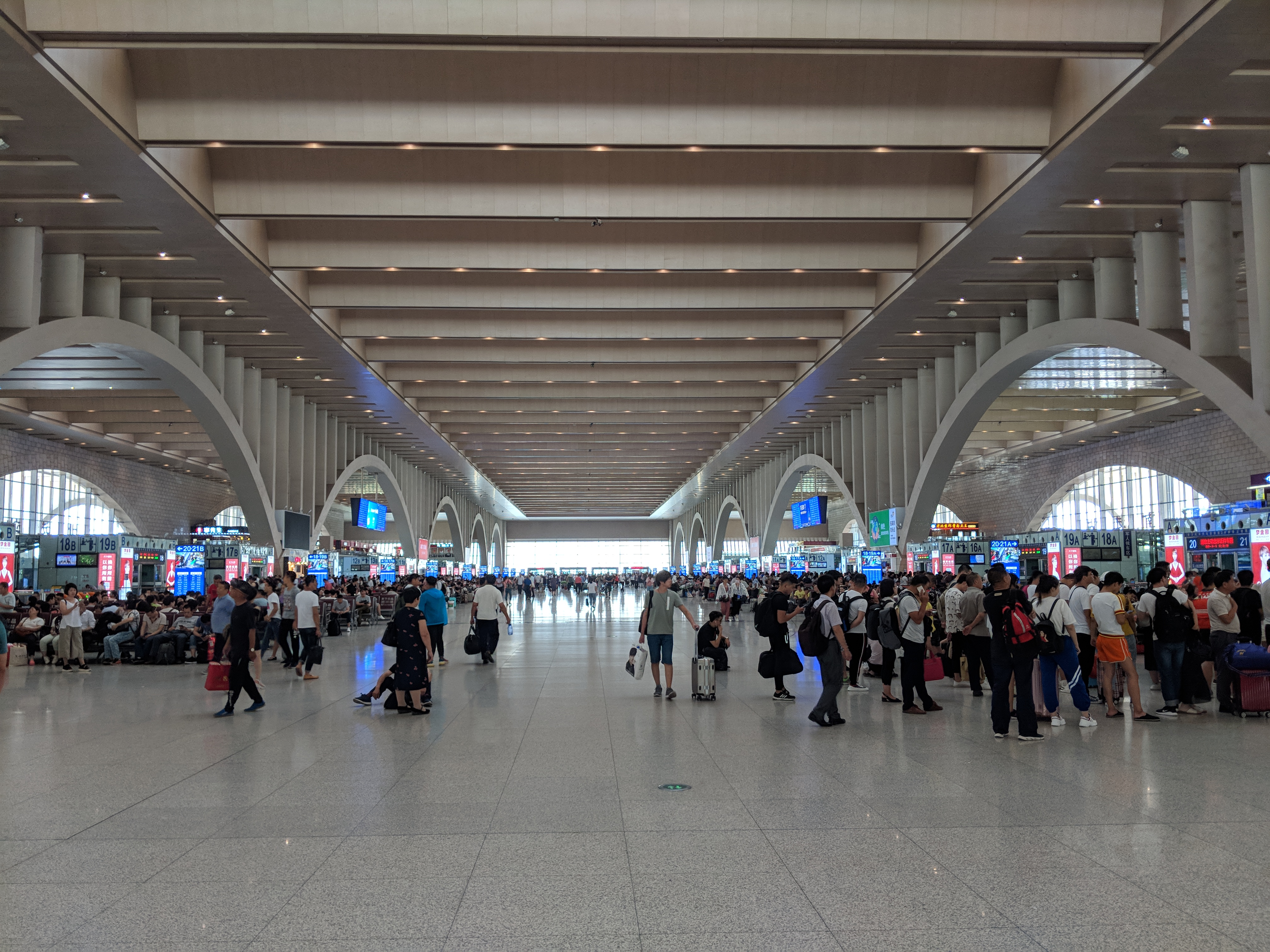 Shijiazhuang Railway Station